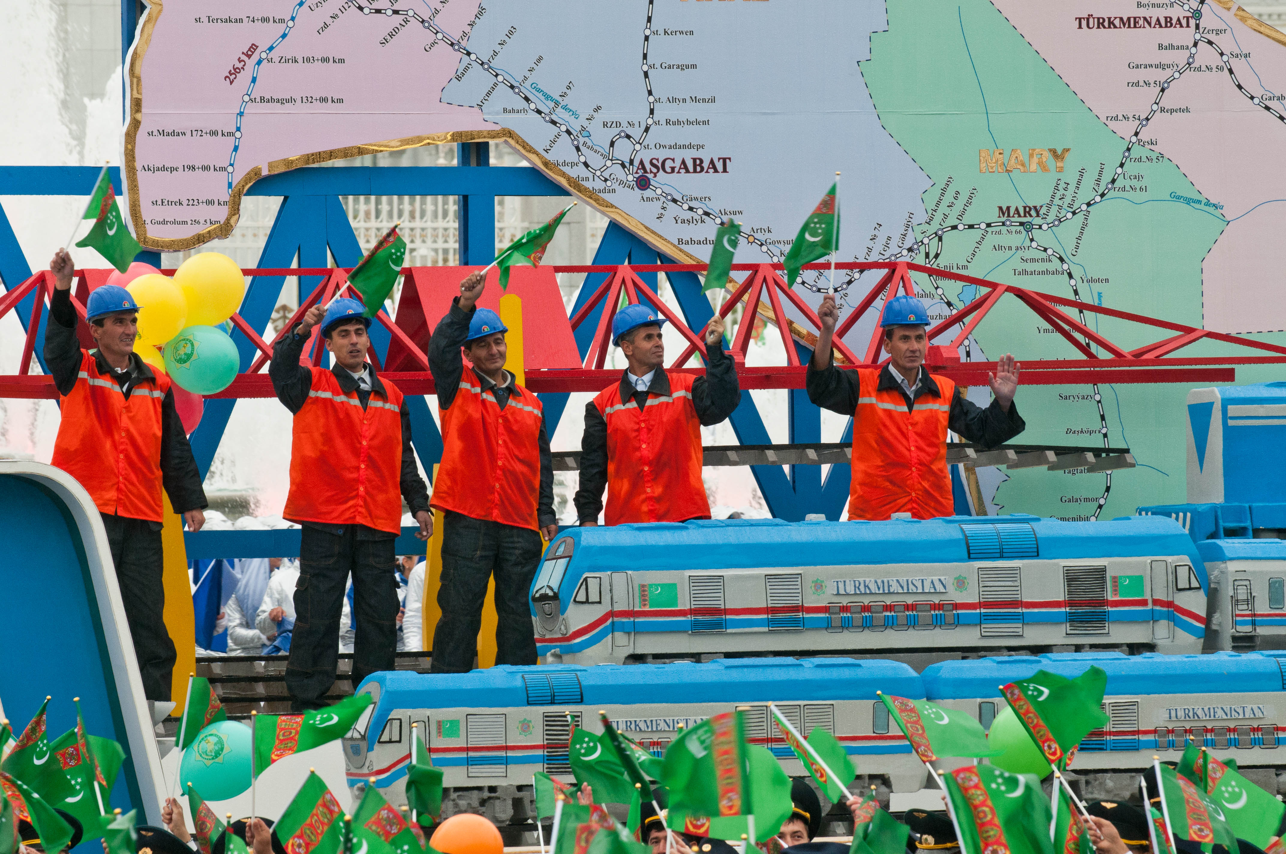 Celebrating the 20th year of independence in Turkmenistan